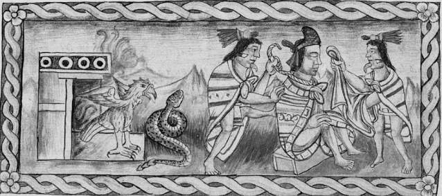 Muerte de Durán